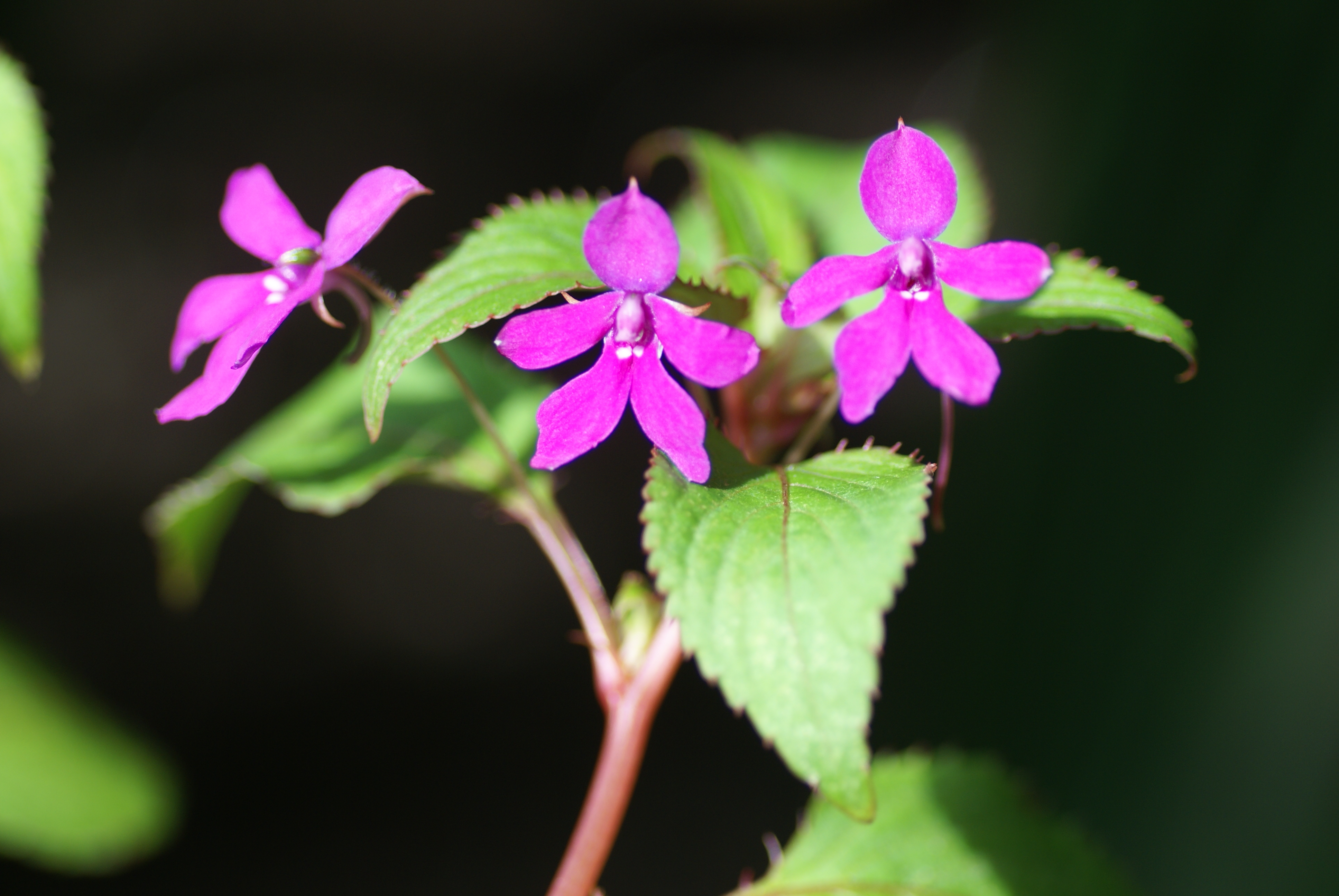 Plant species Impatiens zombensis 1 in botanical garden in Helsinki city, Finland